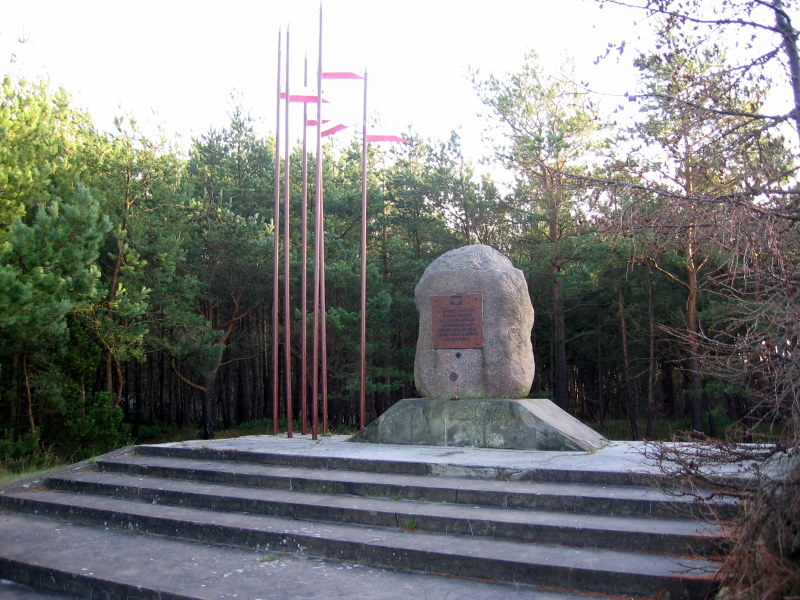 Memorial of Poland's Betrothal with the Sea in 17 March 1945 in Mrzeżyno.